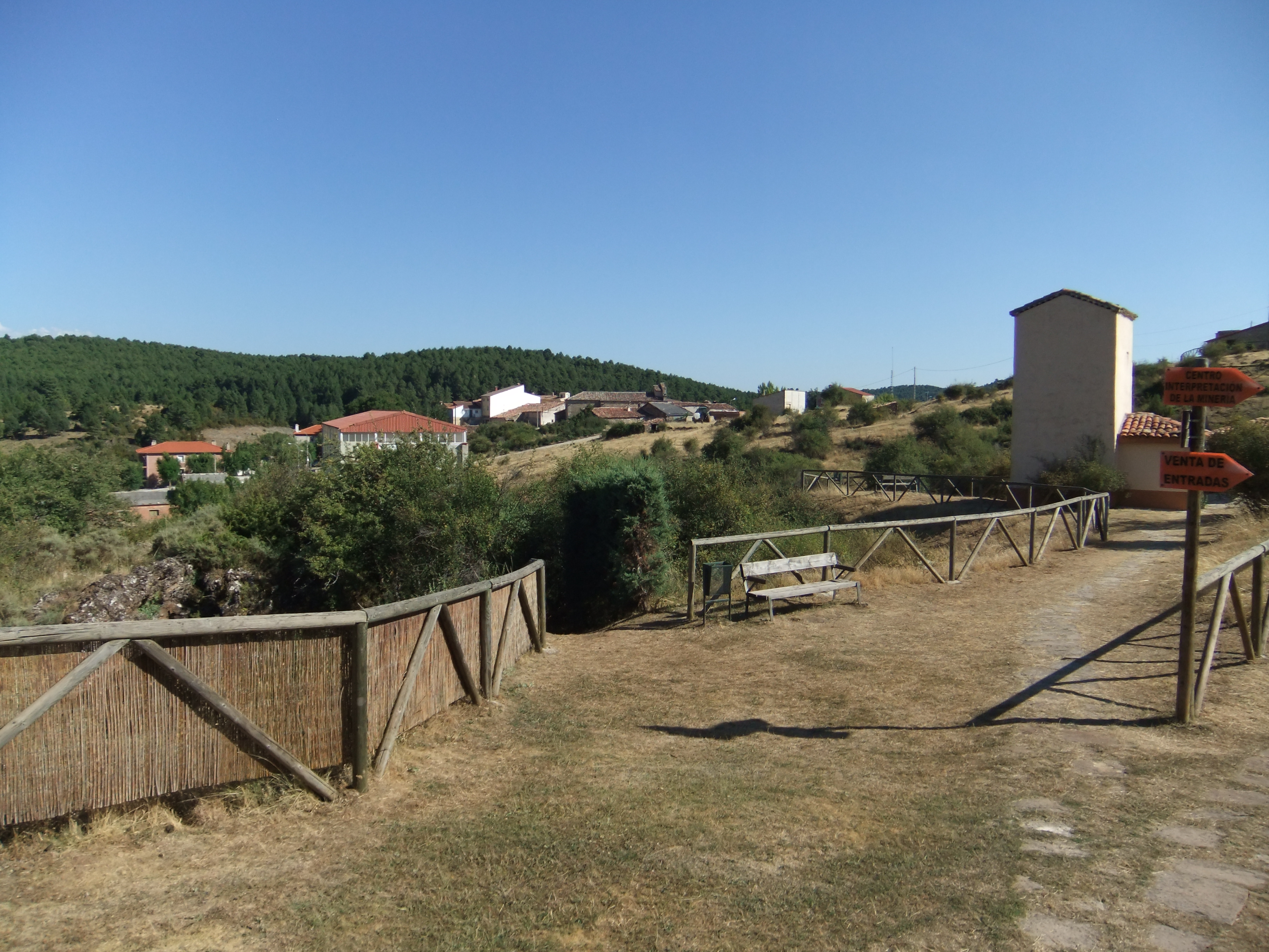 Seeview of Cueva del Hierro vilage in Spanish province of Cuenca.